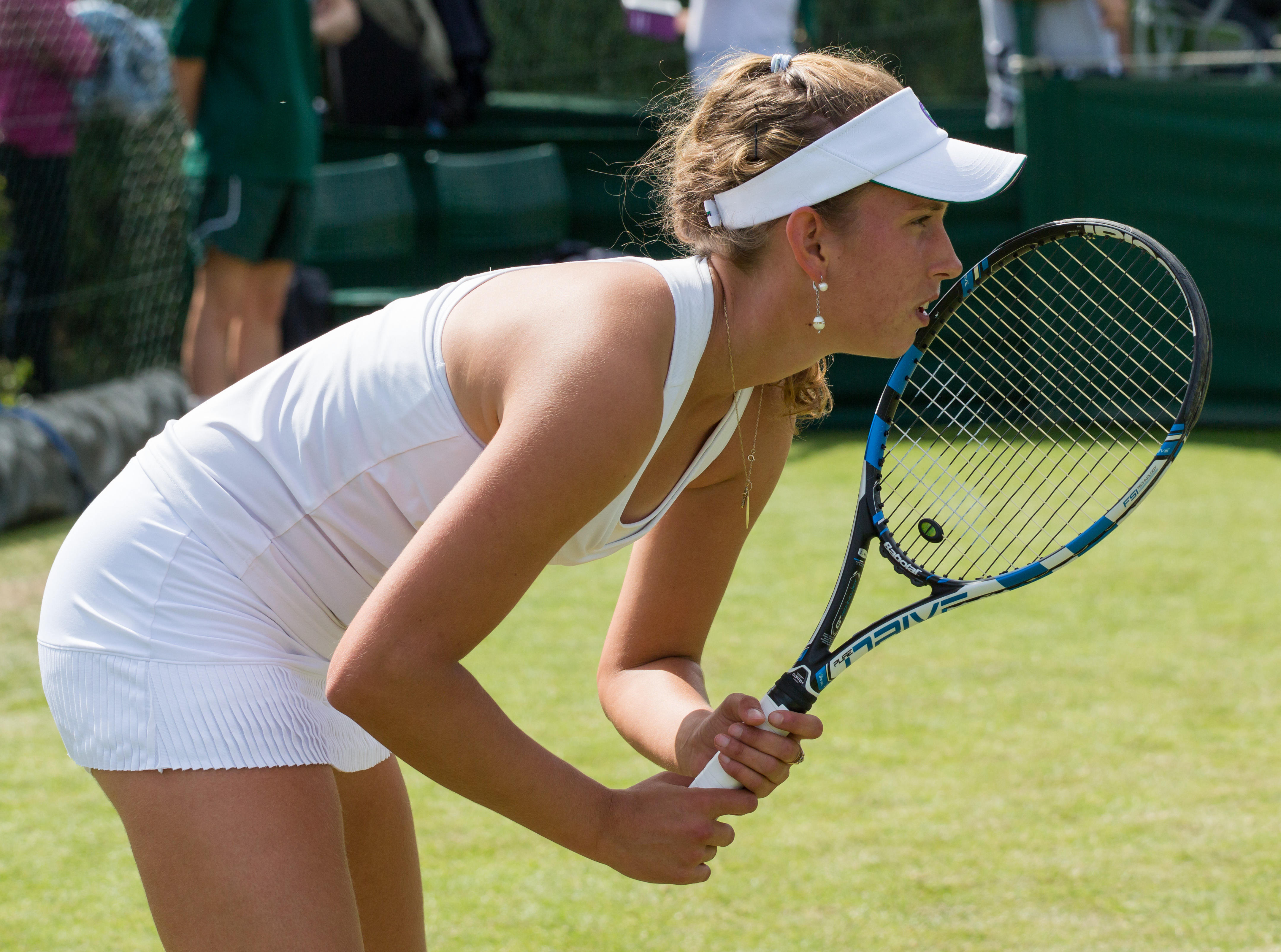 Elise Mertens competing in the first round of the 2015 Wimbledon Qualifying Tournament at the Bank of England Sports Grounds in Roehampton, England. The winners of three rounds of competition qualify for the main draw of Wimbledon the following week.